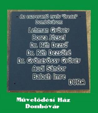 Esperanto Plaque in Dombóvár, Hungary